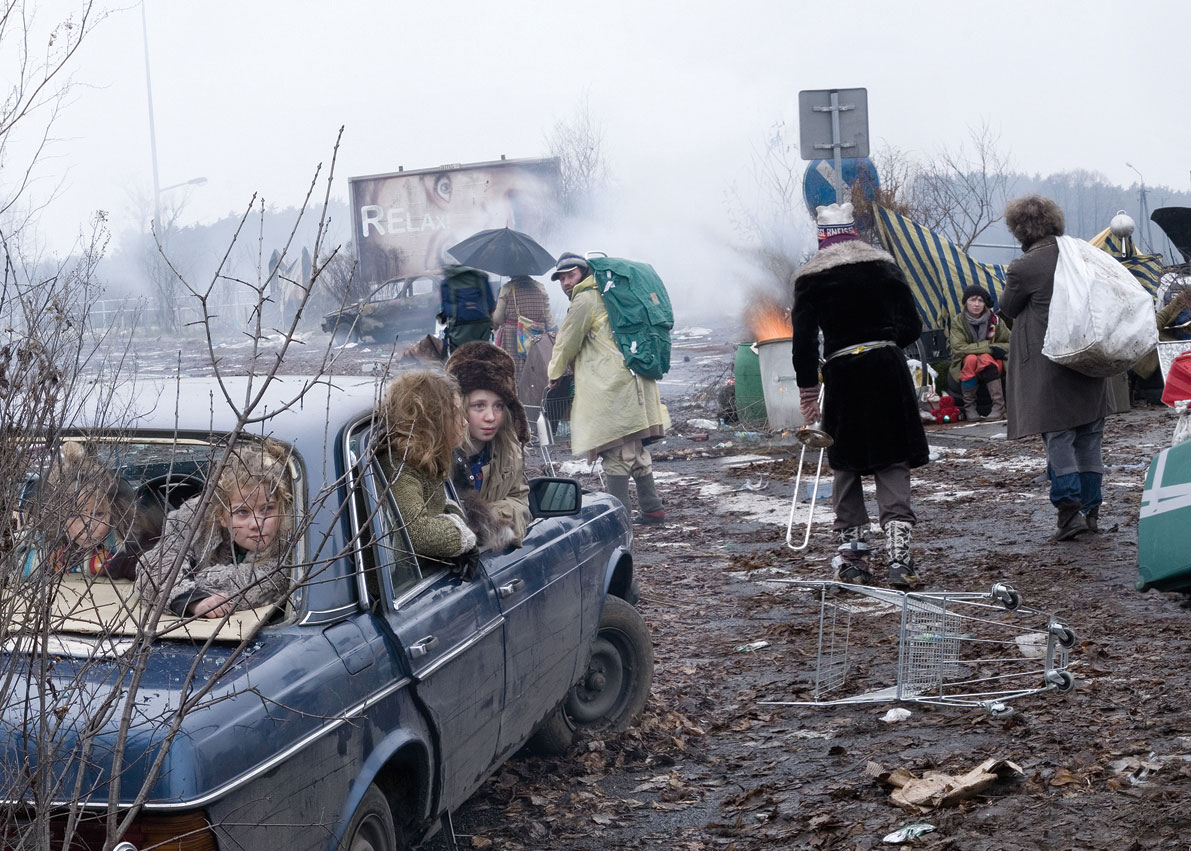 'People Leaving the Cities' is one of the latest works of Zbigniew Libera. The photographs are stylised as painterly panoramas and present the artist's futuristic vision of a dying metropolis. People are abandoning the cities which no longer provide them with electricity or running water, looking for a friendlier place to live. The work relates to Libera's earlier series of photographs - the Masters and Positives series and the question of shaping collective memory.